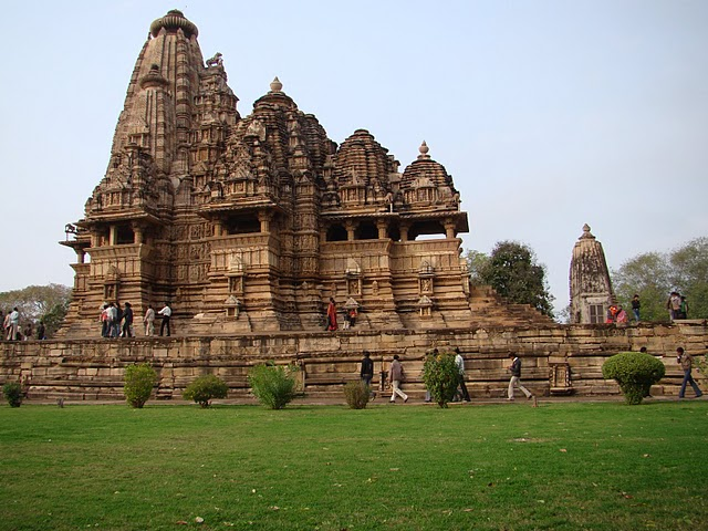 Vishvanath Temple.